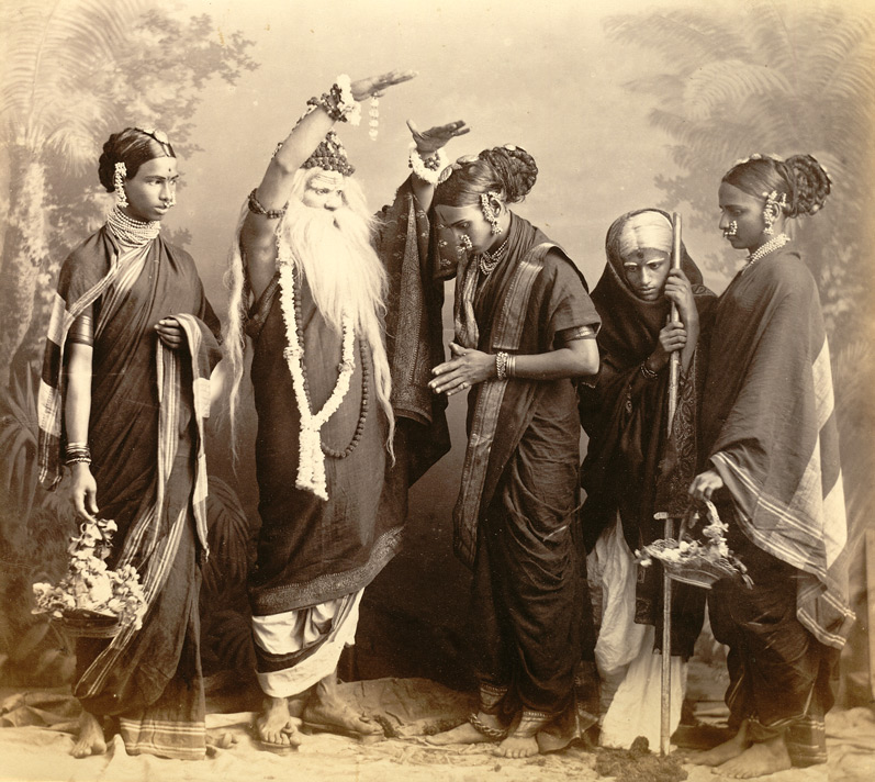 Marathi theatrical group, Mumbai, 1870.(from the Lee-Warner Collection: 'Bombay Presidency' by an unknown photographer in the 1870s. )